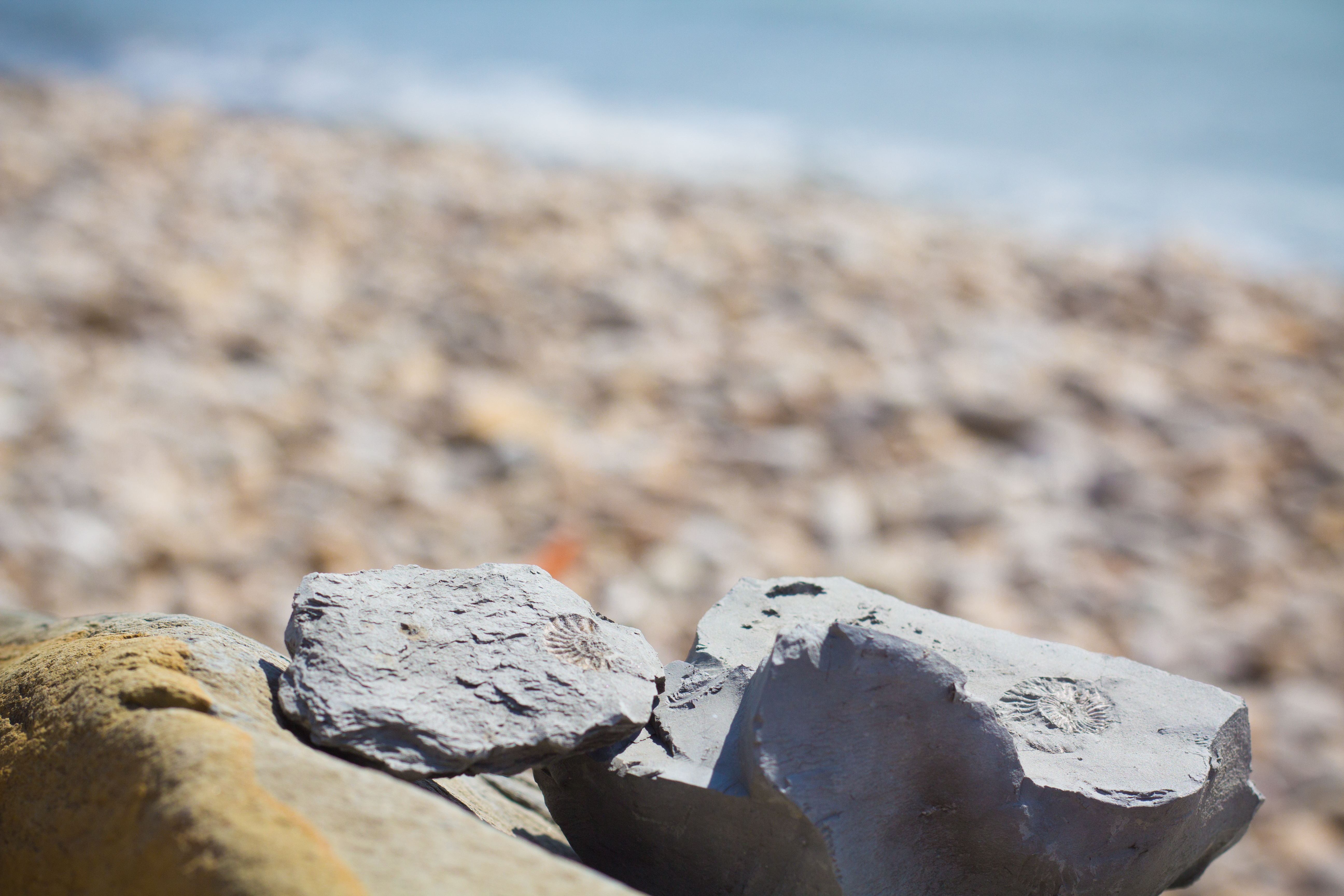 Ammonite at the beach at Jurassic Coast, Golden Cap, Dorset